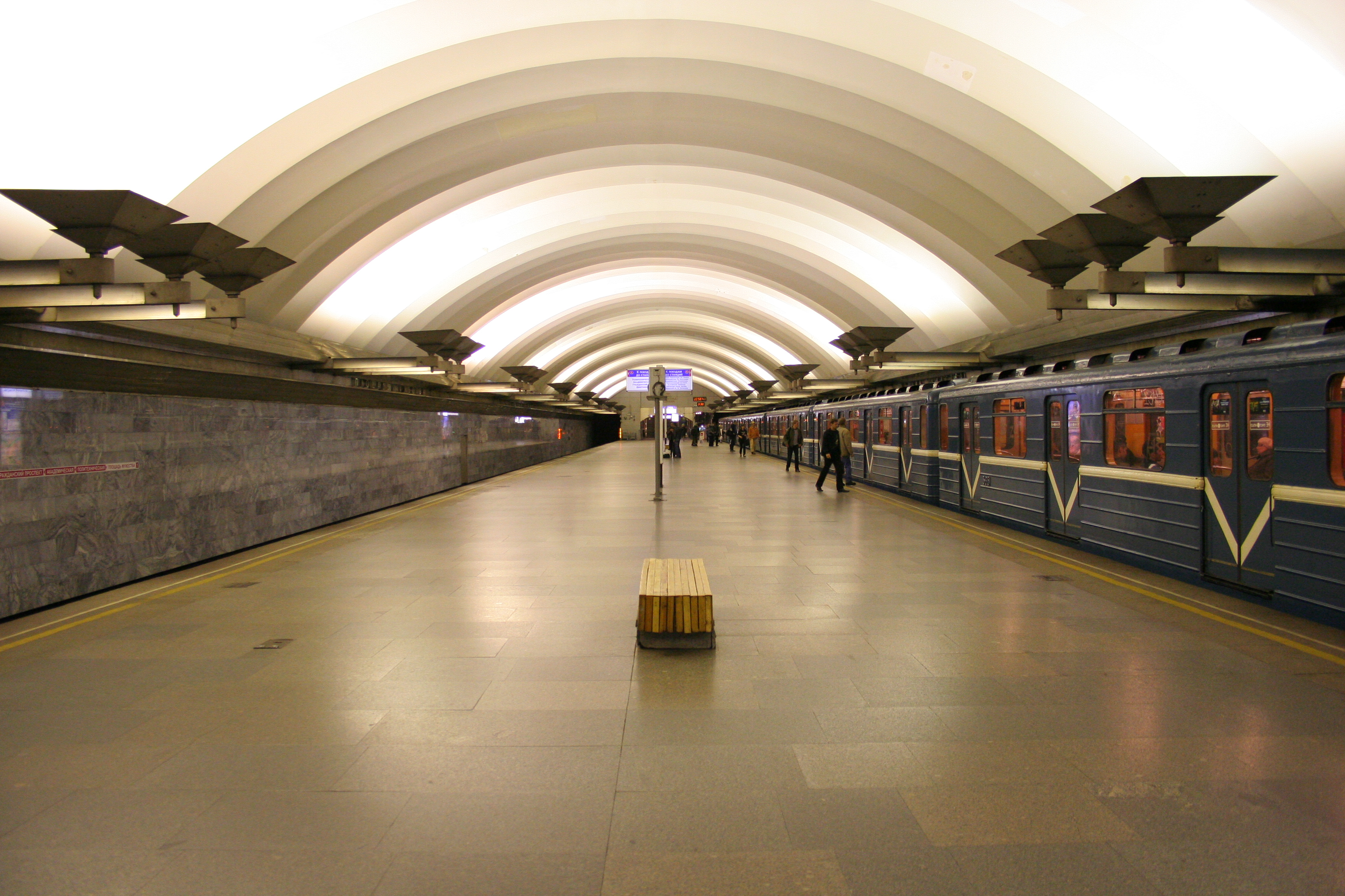 Ploshchad Muzhestva station of Saint Petersburg Metro